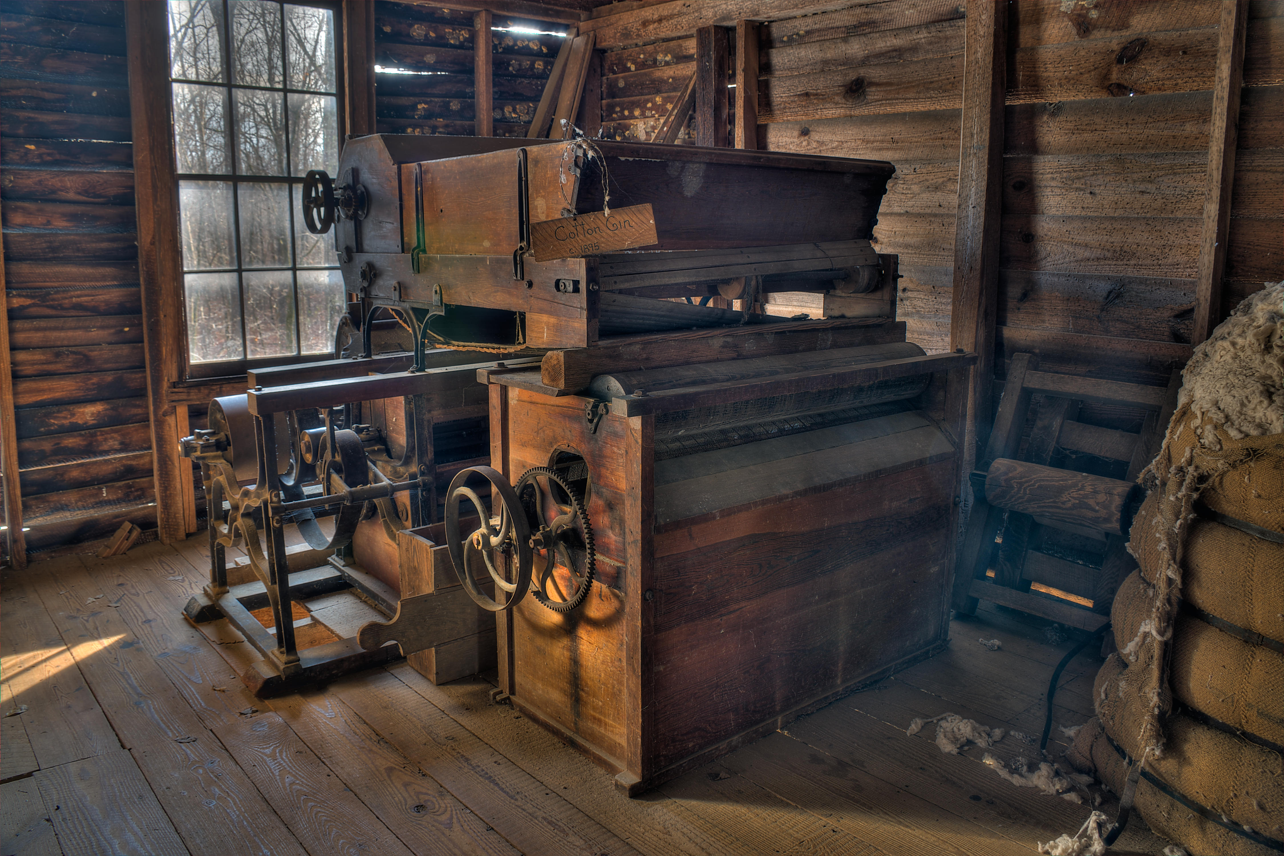 Lummus cotton gin at Jarrell Plantation